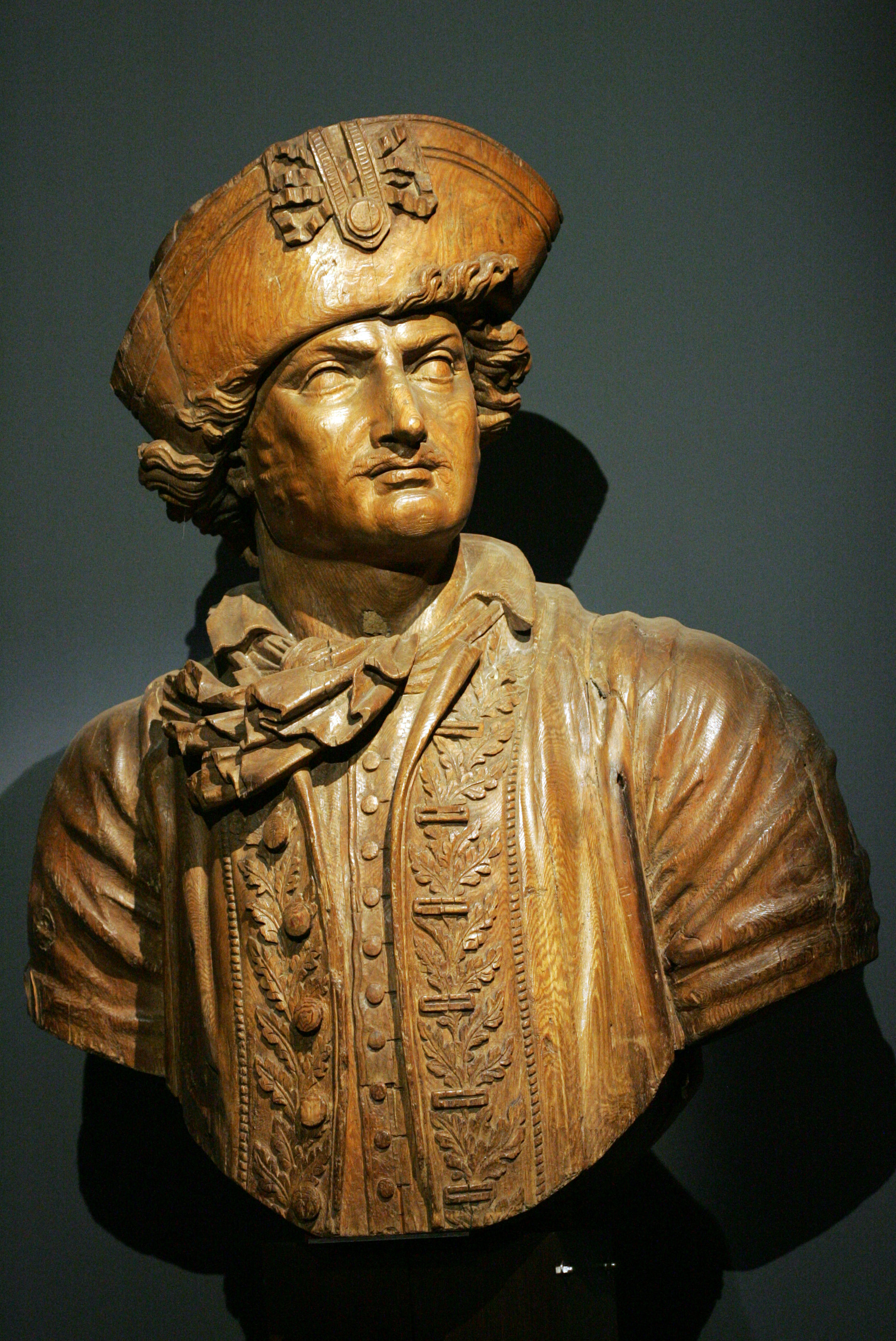 Artist Sculpture workshop of Brest shipyardDescription Figurehead of the Duquesne, figuring Abraham Duquesne. Circa 1822.Collection Musée national de la Marine Native nameMusée national de la MarineLocationParisCoordinates48° 51′ 43.11″ N, 2° 17′ 16.76″ E Established1827Web page control : Q1286709 VIAF: 19144648200974718522 ISNI: 0000 0001 2259 2914 LCCN: n50055356 Museofile: M5026 WorldCat institution QS:P195,Q1286709Source/Photographer Rama Figurehead of the Duquesne, figuring Abraham Duquesne. Circa 1822.